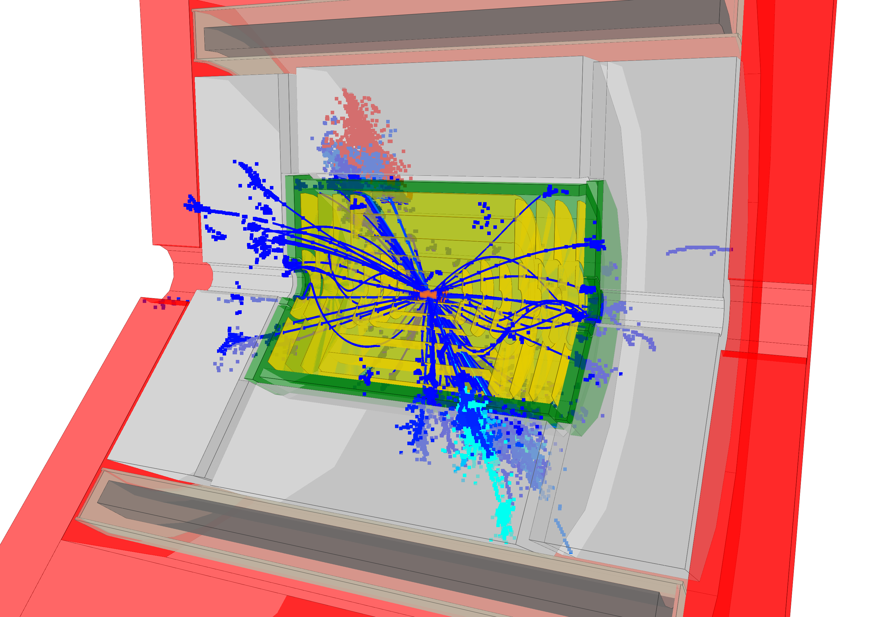 Simulated production of a top-quark pair at a nominal collision energy of 3 TeV, shown after background suppression.